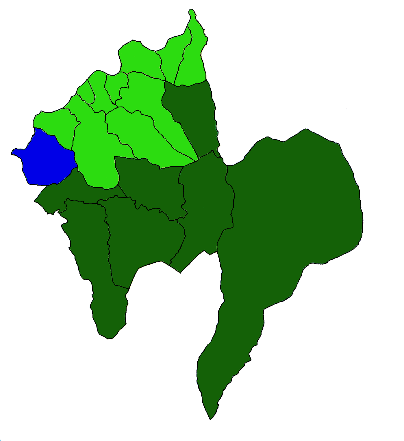 Map of Penso in Melgaço, Portugal